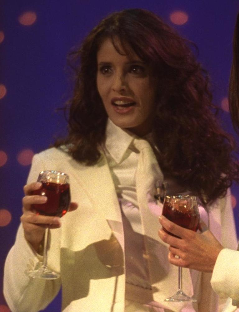 Two of the presenters of the "1999 Eurovision" song contest, held at "Binyanei Hauma" in Jerusalem. on the l, Dafna Dekel & Sigal Shachmon on the r.